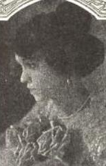 A young woman in profile, with dark hair in a bouffant updo with a top bun.